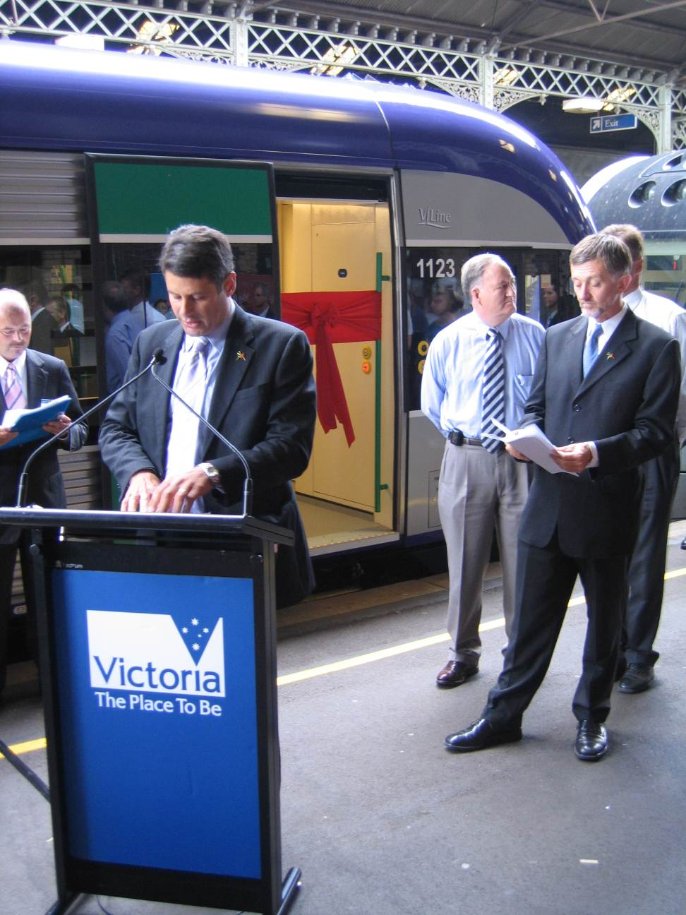 Victorian Premier Steve Bracks and Transport Minister Peter Batchelor at the launch ceremony for the Regional Fast Rail project (Geelong line) at Geelong Station, Victoria, Australia. February 3 2006.